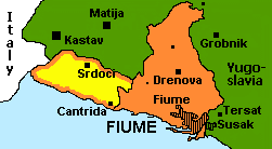 The territory of the Free State of Fiume. (orange = the old Hungarian district of Fiume till 1918, yellow = added to Fiume 1919, green = Yugoslavia)